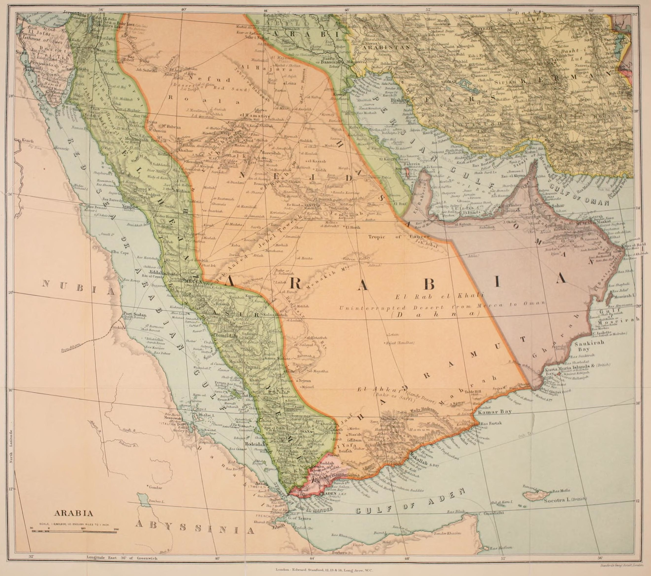 Map of Arabia, early 20th century (before 1909)